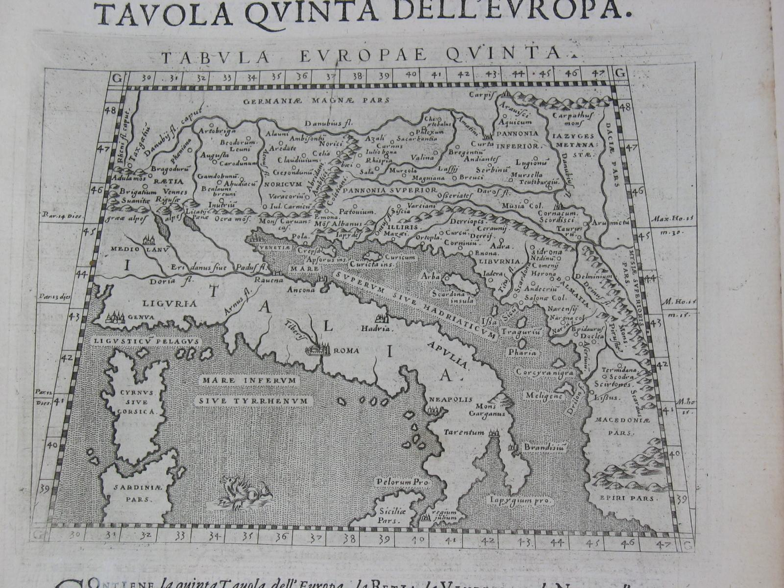 Ptolemaic map from 1598 - Tabvla Evropae Qvinta - Balkans and Italy.